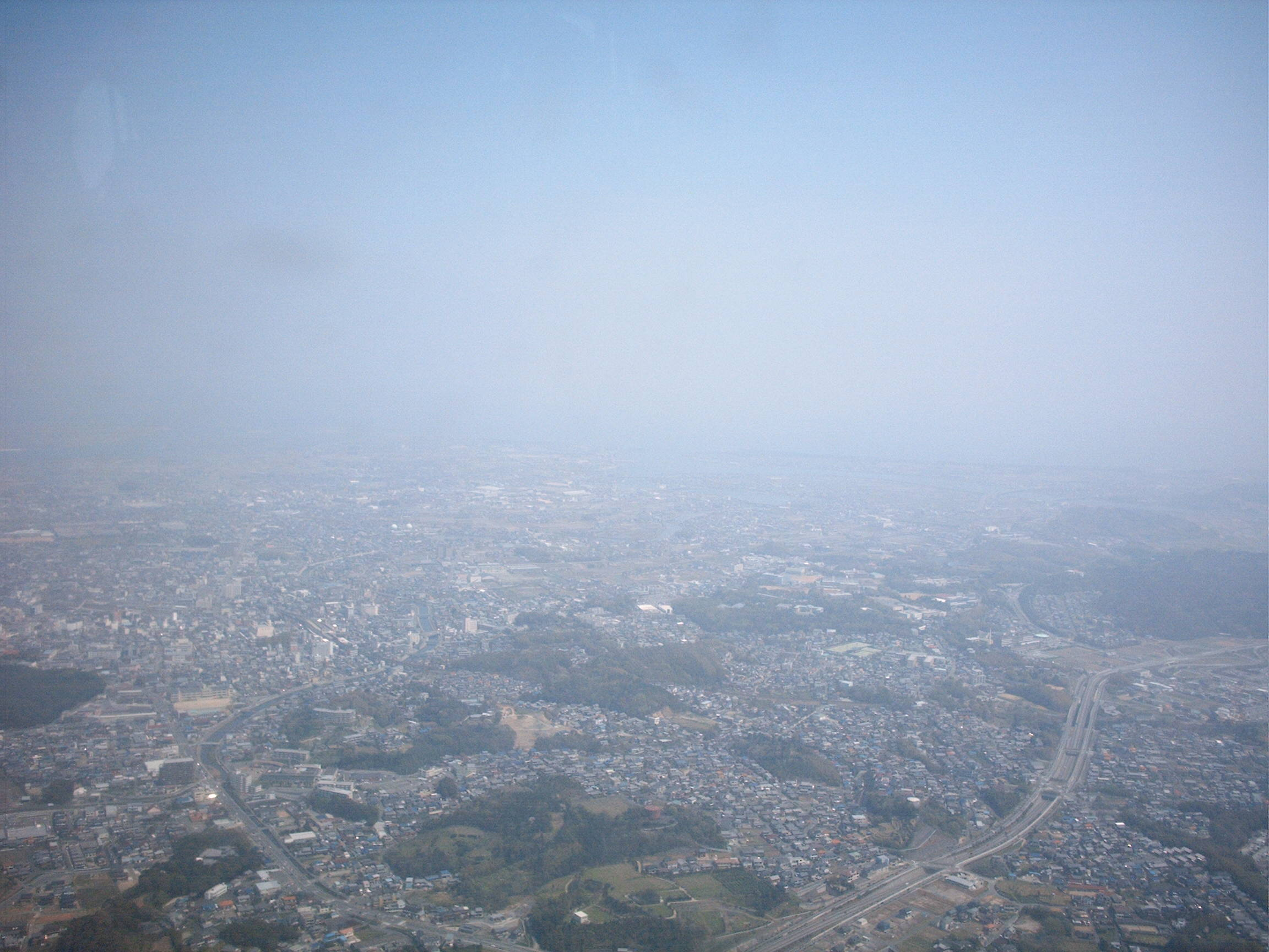 Ise city Mie Prf. Japan.